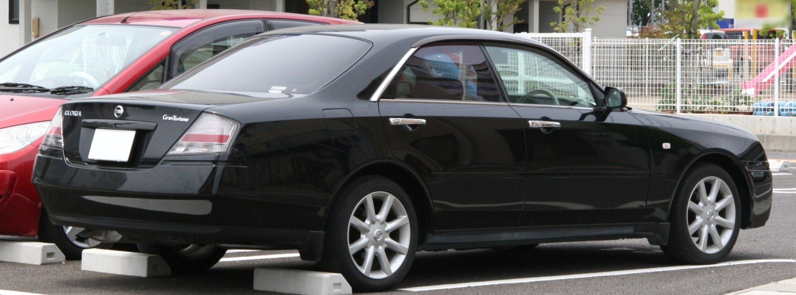 Nissan Gloria